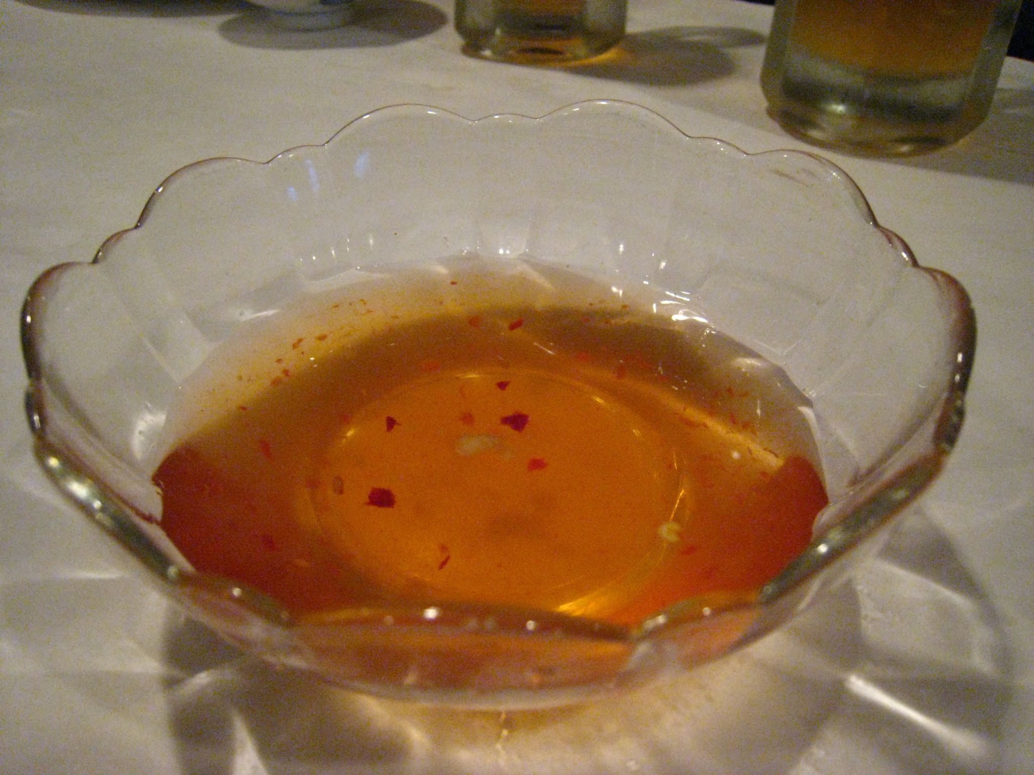 A bowl of nuoc mam.